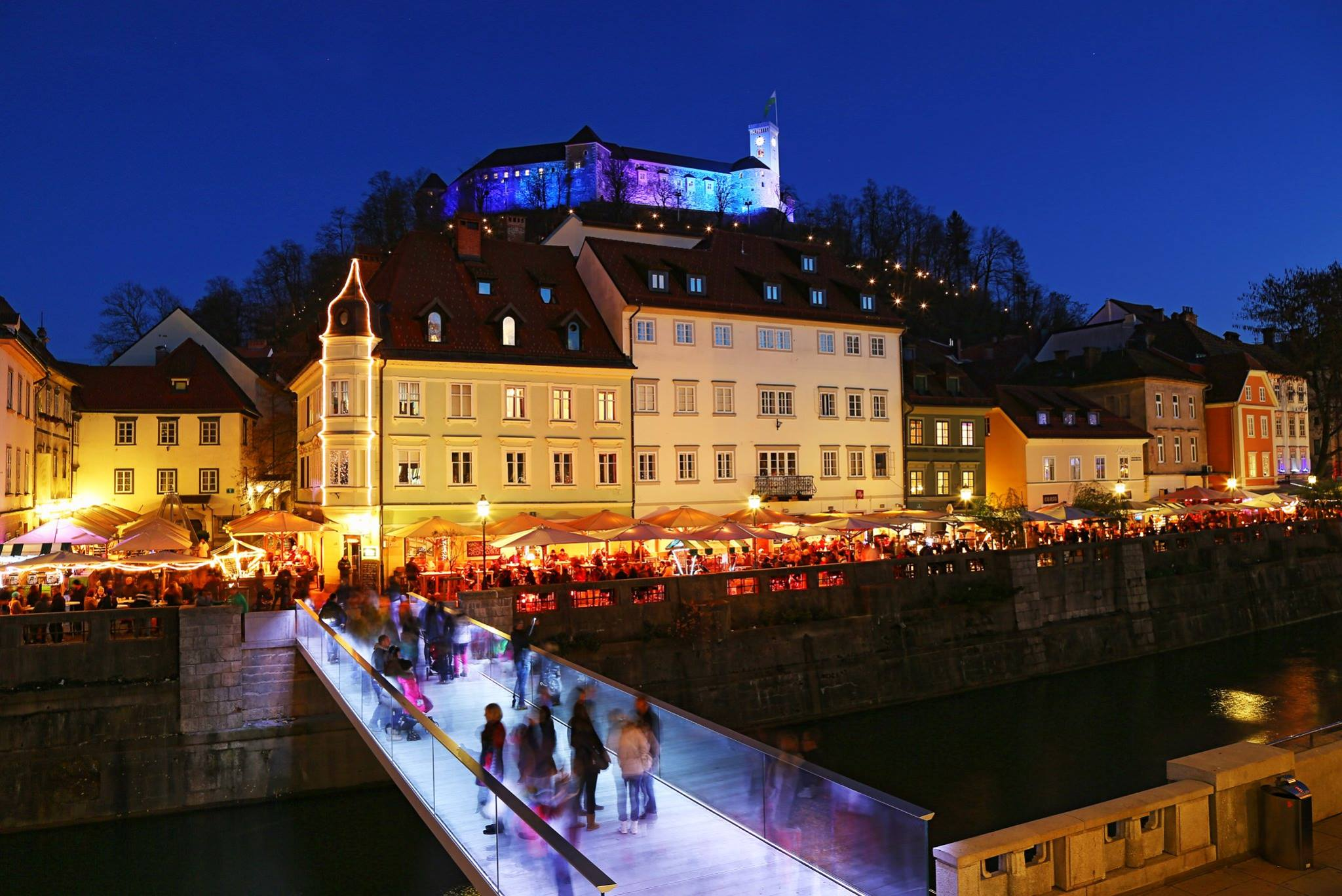 Ljubljanica river banks, tourism